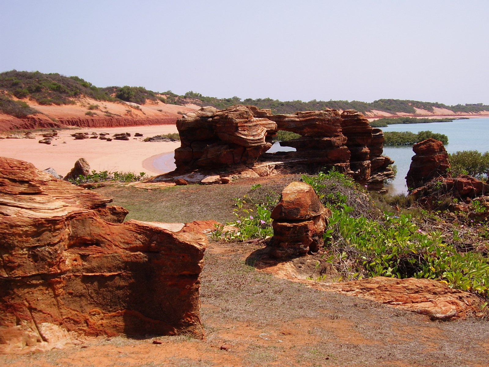 Beach in Broome, Western Australia